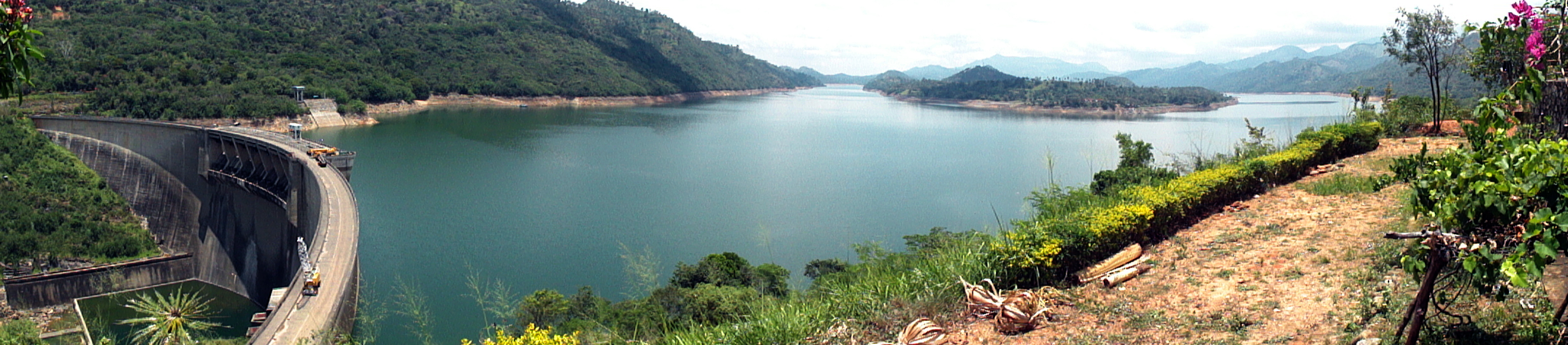 Panoramic view of the Victoria Dam and Reservoir, in Teldeniya, Sri Lanka.